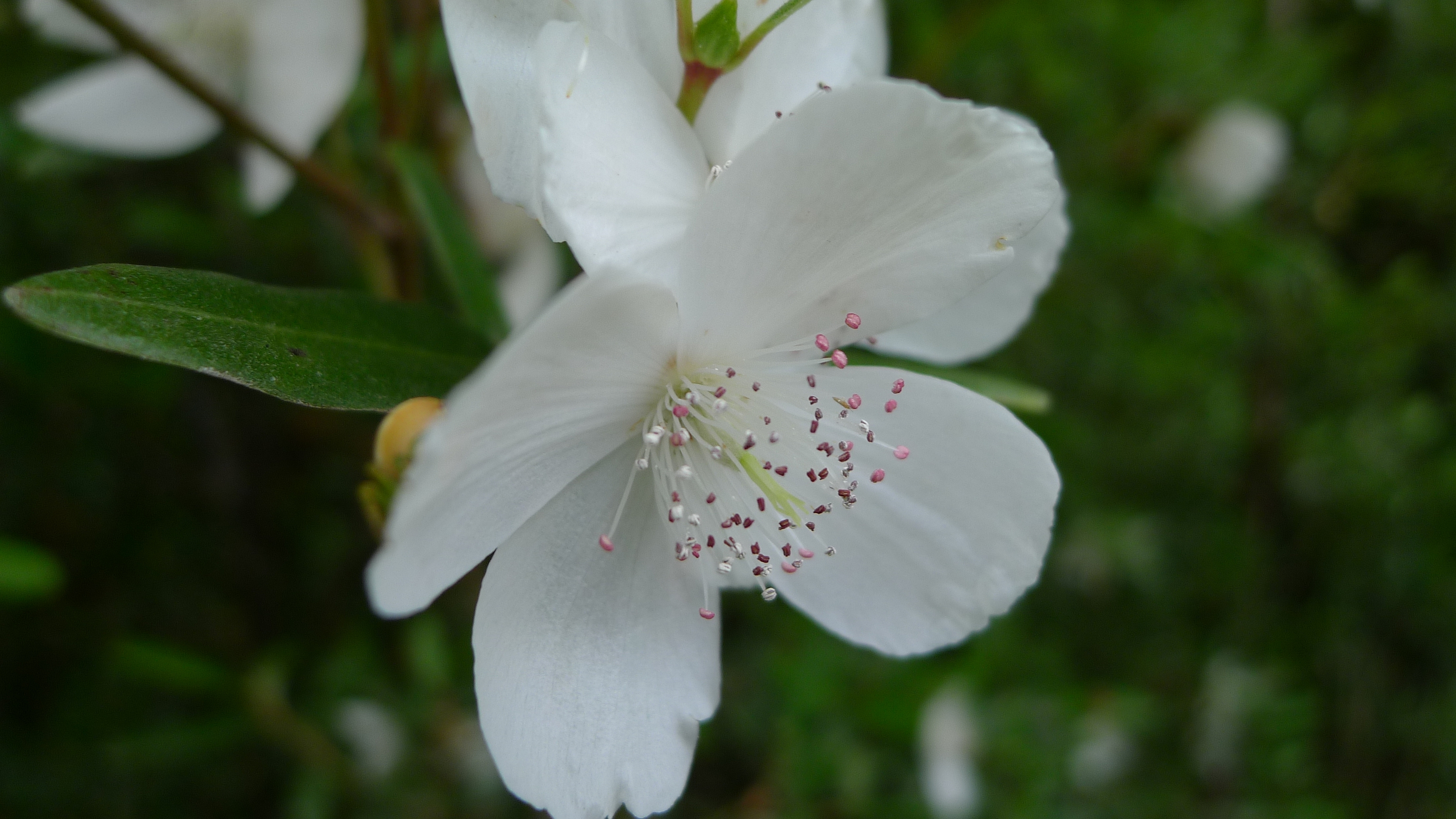 Eucryphia lucida Leatherwood flower "Montezuma Falls, Tasmania Australia, January 2012." (author stated that this flower was photographed from the tree in File:Eucryphia_lucida_Leatherwood_in_flower.jpg.) 5 Jan 2012 by John Tann